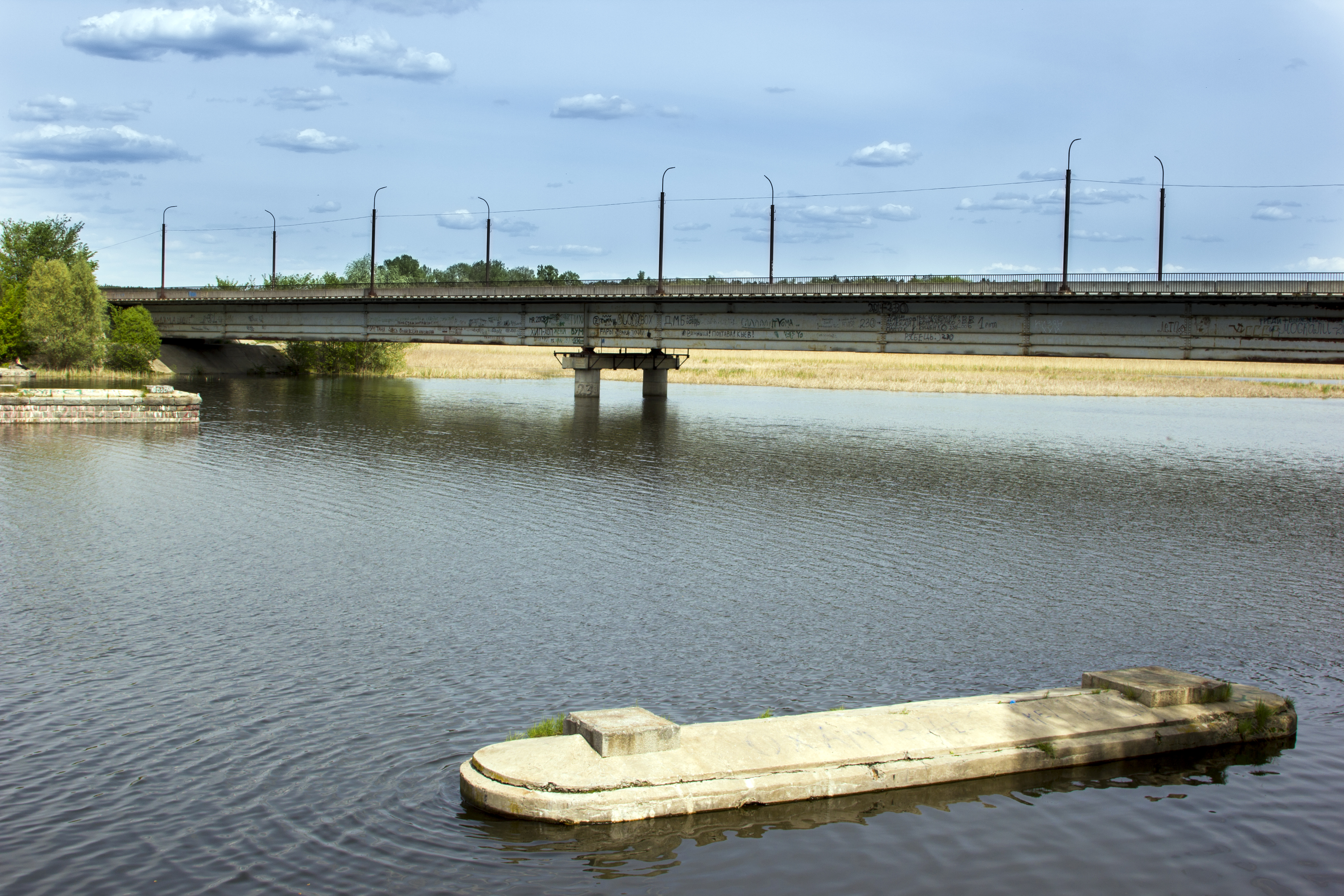 The Bridge over The Seversky Donets (1)